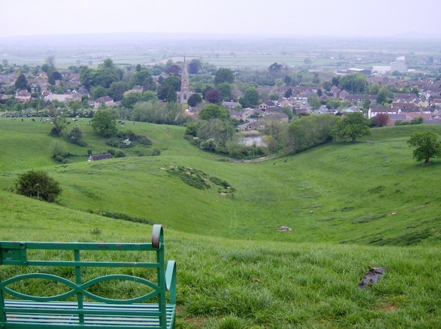 Remains of Castle Cary in Cary Castle, Somerset, England. From the observation point on Lodge Hill, looking down on the castle remains. Beyond, in the next square, is Park Pond, and the town of Castle Cary behind that.